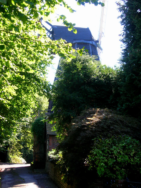 Photograph of windmill at West Chiltington